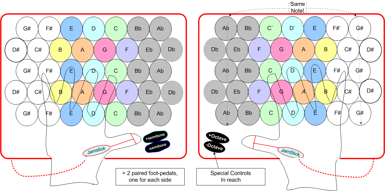 The ideal jammer. Attached to the back of the hand is a "jamstick" used to bend notes and add other expressive touches. Close to the thumbs are useful controls. Notes that are considered the same or enharmonic, such as the G# and Ab, are different keys on this keyboard and can be tuned more accurately.